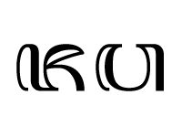 Text written in Javanese